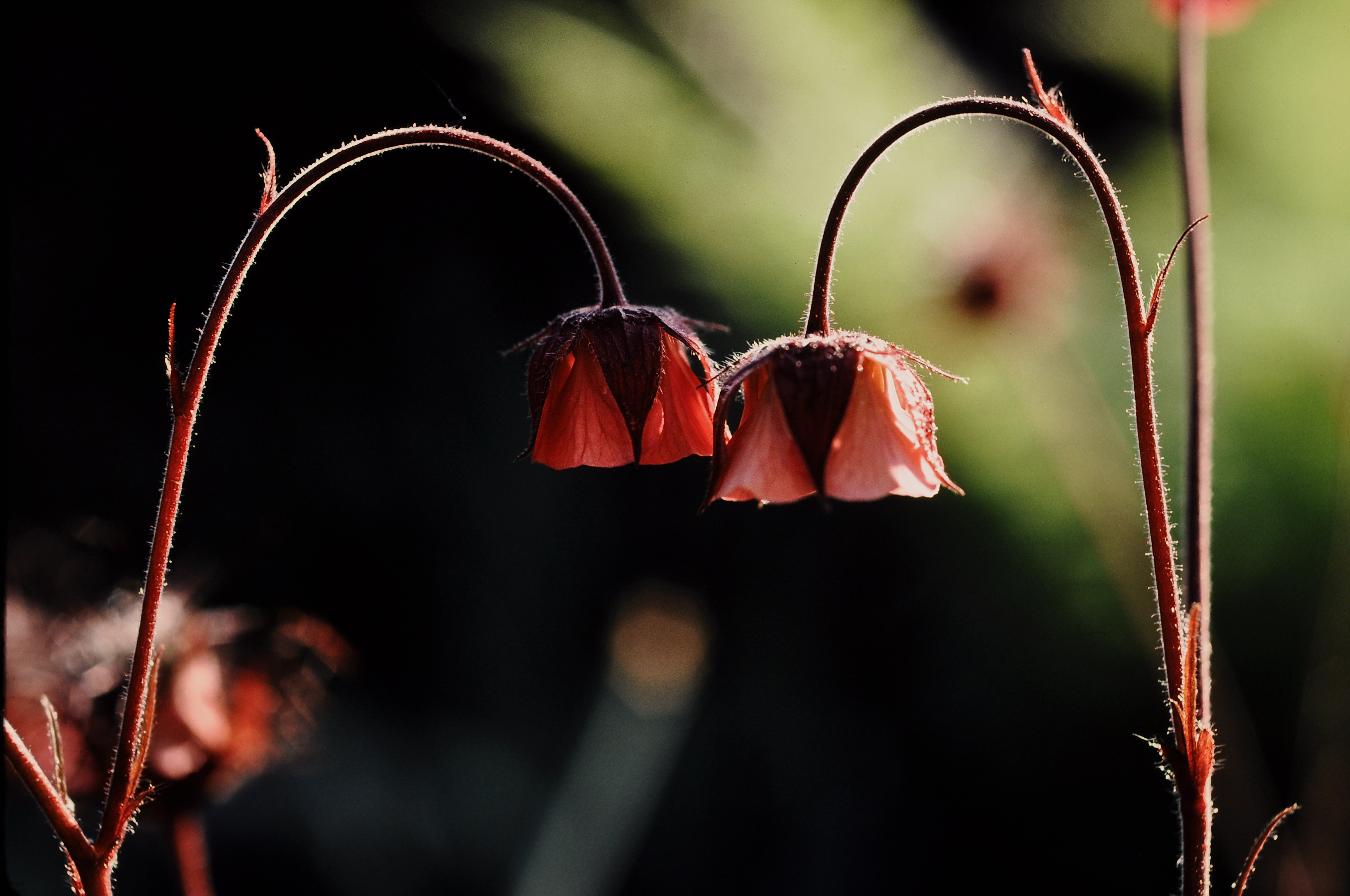 Water avens